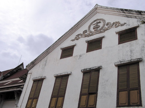 Issaretrachanusorn Hall (Wang Na), Bangkok National Museum, Bangkok , Thailand